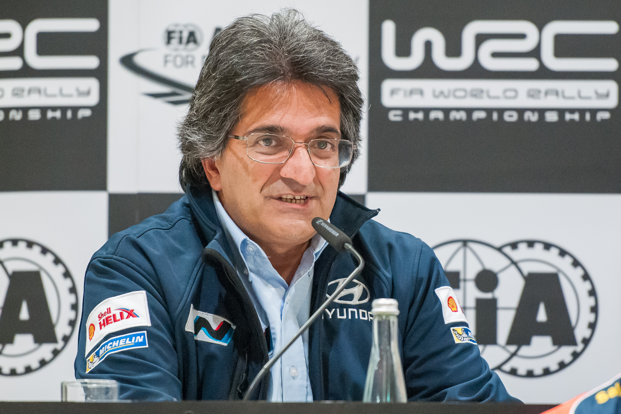 ADAC Rallye Deutschland 2014,FIA,FIA World Rally Championship,Hyundai Motorsport,Michel Nandan,Motorsport,Pressekonferenz,Rally,Rallye,WRC